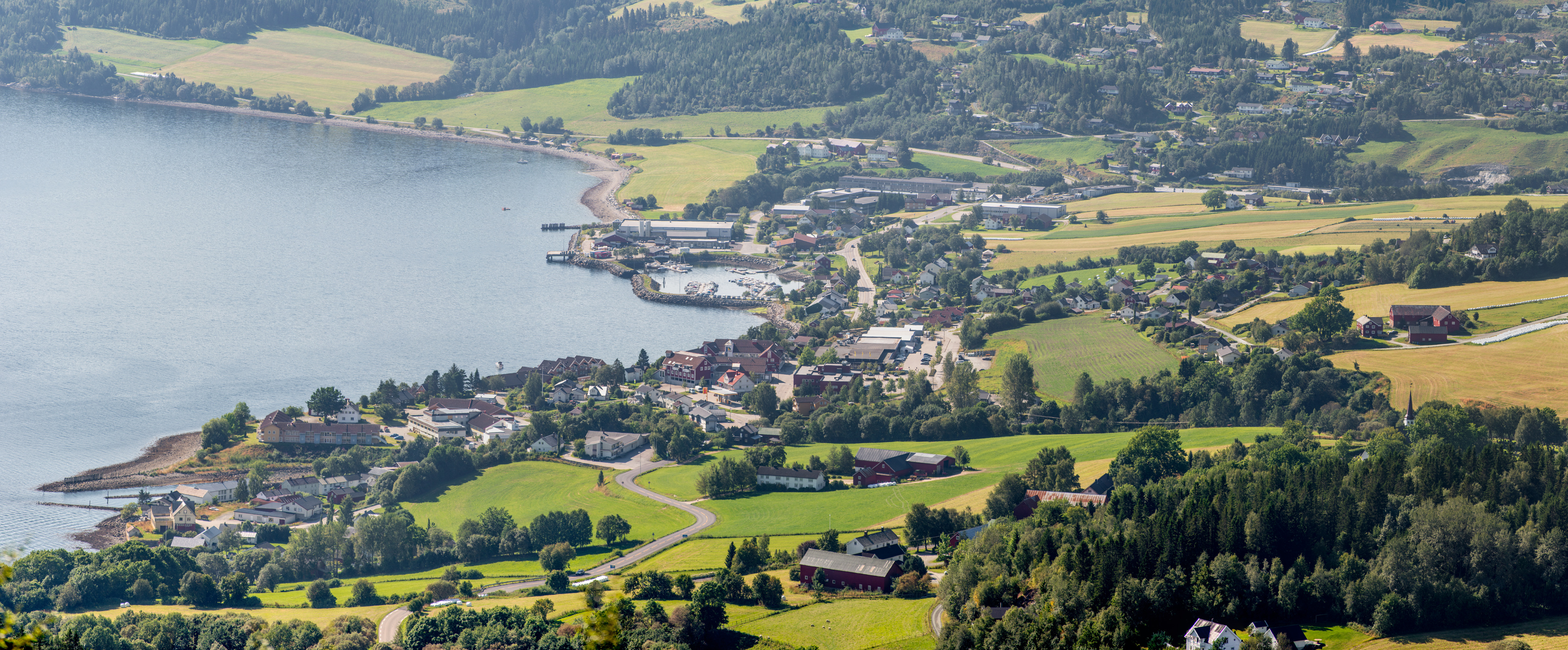 Leksvik as seen from Våttåhaugen in August 2015